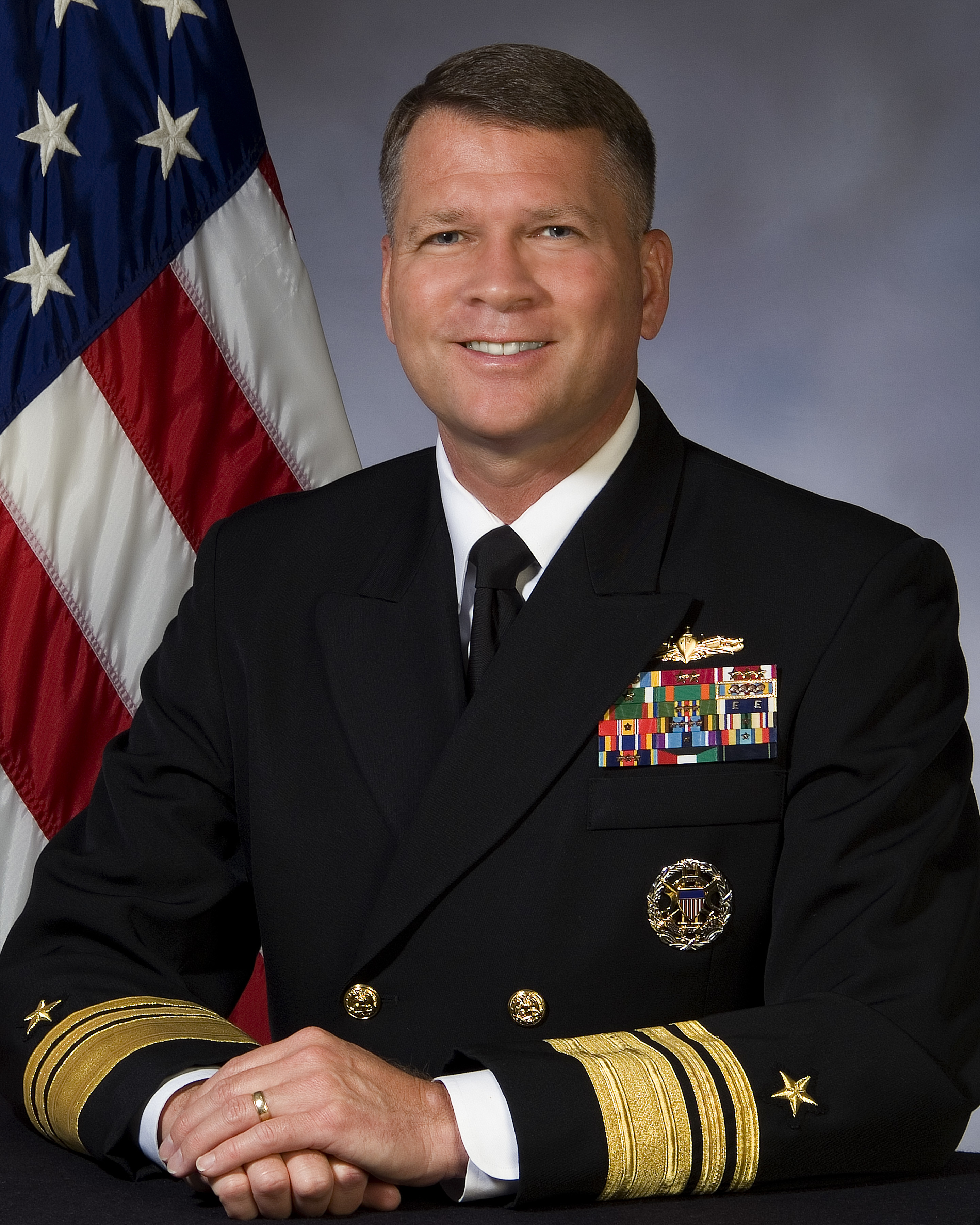 Vice Admiral David J. Dorsett